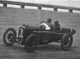 Dario Resta racing during his 1915 win at the Chicago Speedway board track